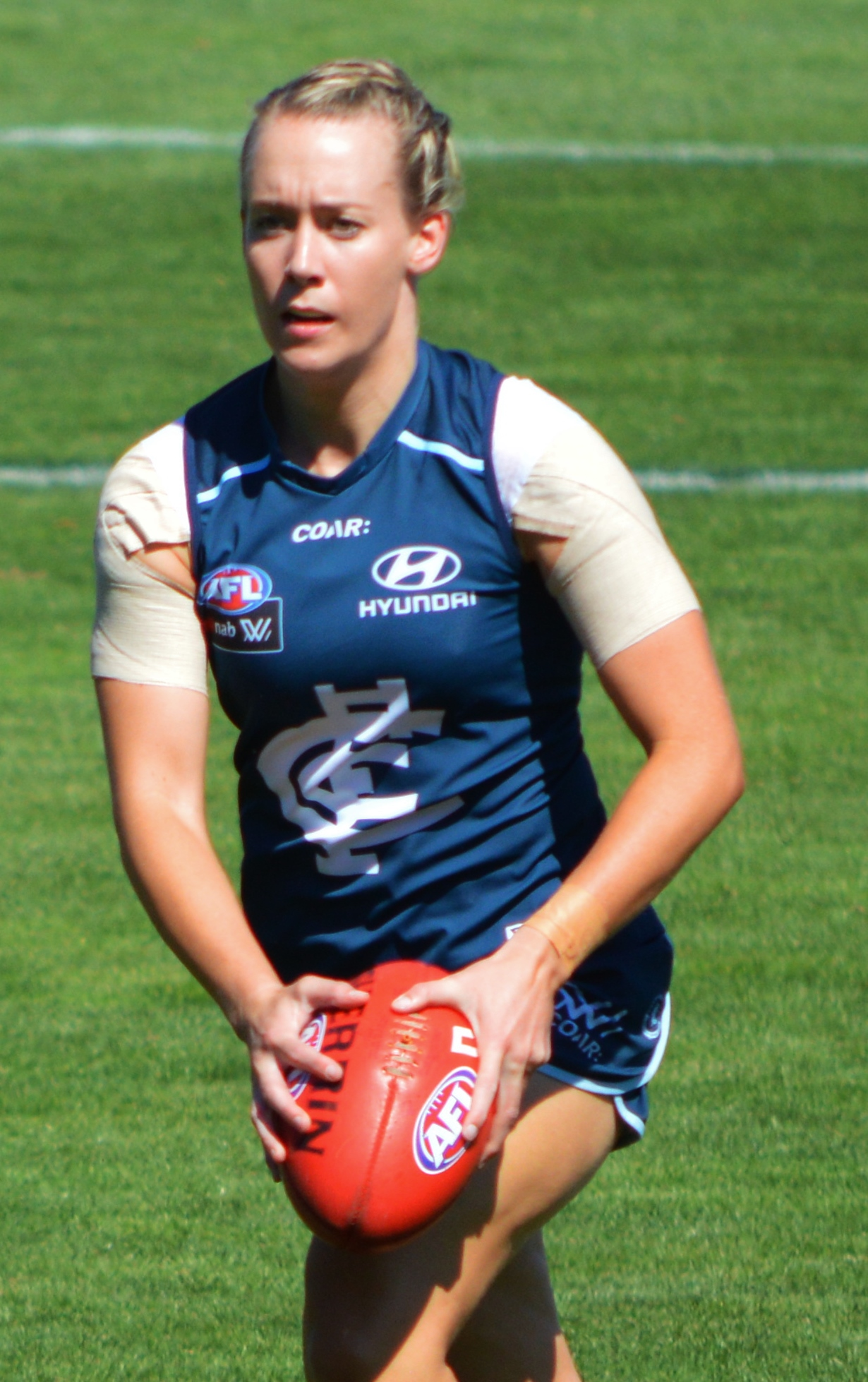 Lauren Arnell in March 2017